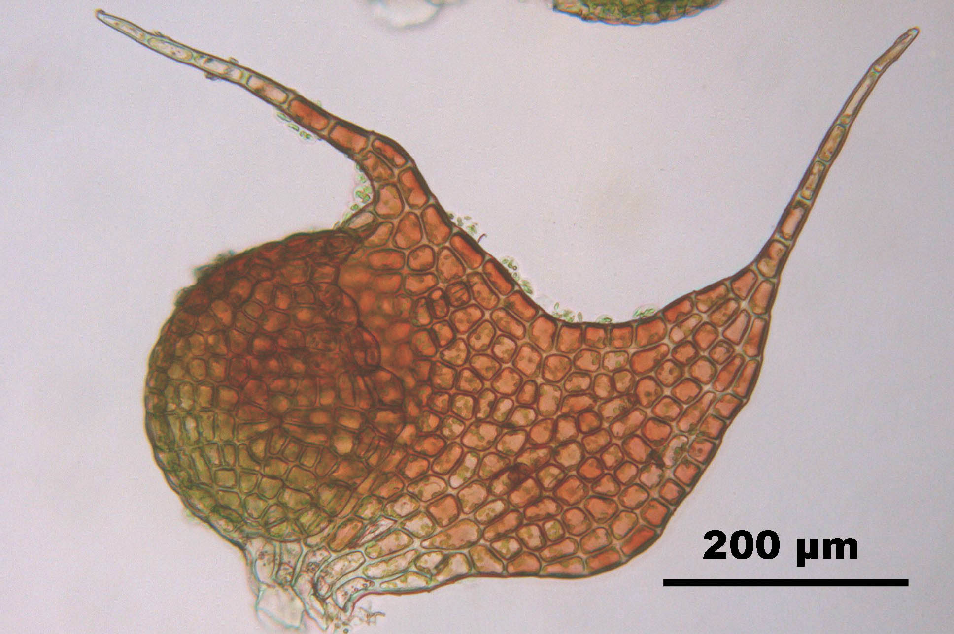 Nowellia curvifolia